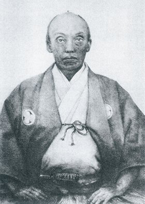 the Japanese man Toshiakira Kawaji 川路聖謨